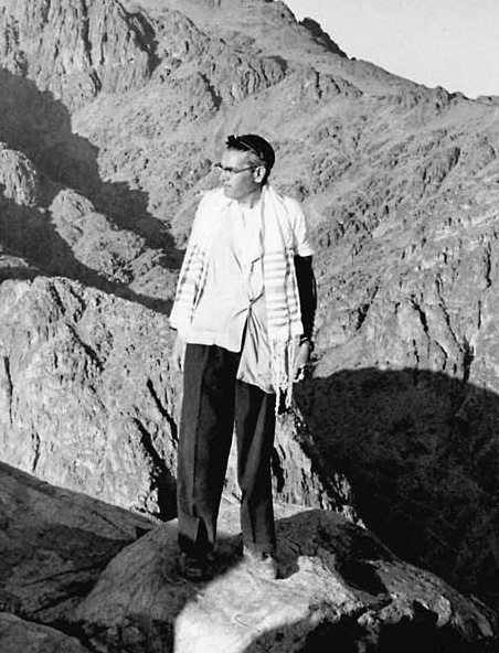 Photo of Rabbi Albert Lewis (deceased), taken in 1968, Sinai desert. Family photo, distributed to friends and family, and published in a number of publications, including Catholic Star Herald, in 1968, with no copyright restriction.